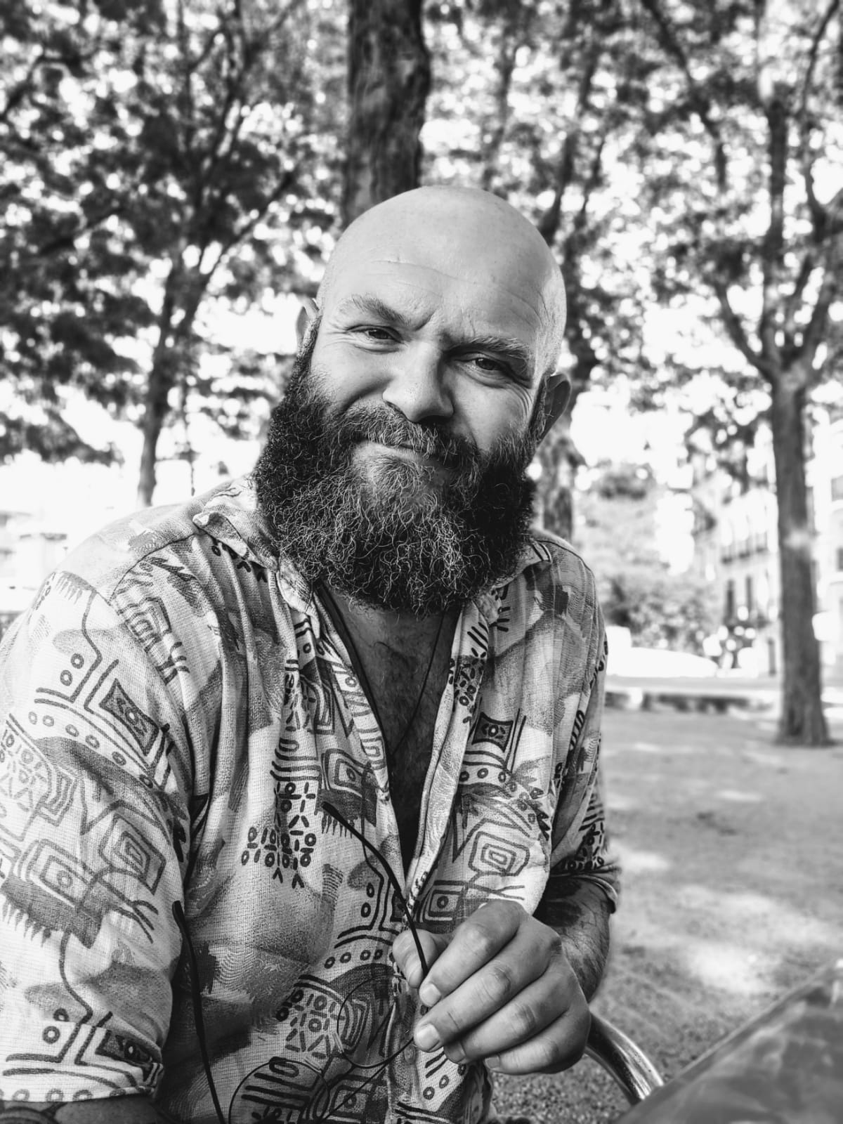 portrait in barcelona